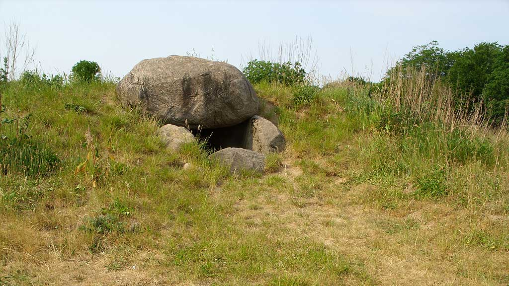 Albersdorf Steingrab (Frestedt)